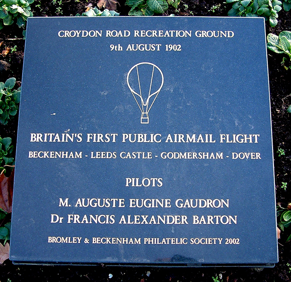 Commemorative plaque about Britain's first public airmail flight